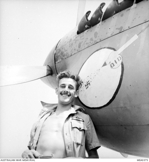 Sicily, Italy. 1943. Pilot Officer (PO) D. Minchin, No. 450 (Kittyhawk) Squadron RAAF, of Chatswood, NSW, stands beside his Kittyhawk aircraft with nose art depicting fly spray targetting two swastikas. PO Minchin flew with the Desert Harassers through operations from El Alamein to Tunis and Sicily. He shot down a Messerschmitt Bf109 aircraft during operations over Cape Bon in Tunisia.